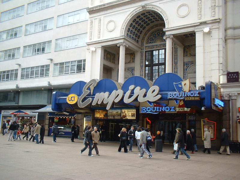 Taken by C Ford 7th March 04